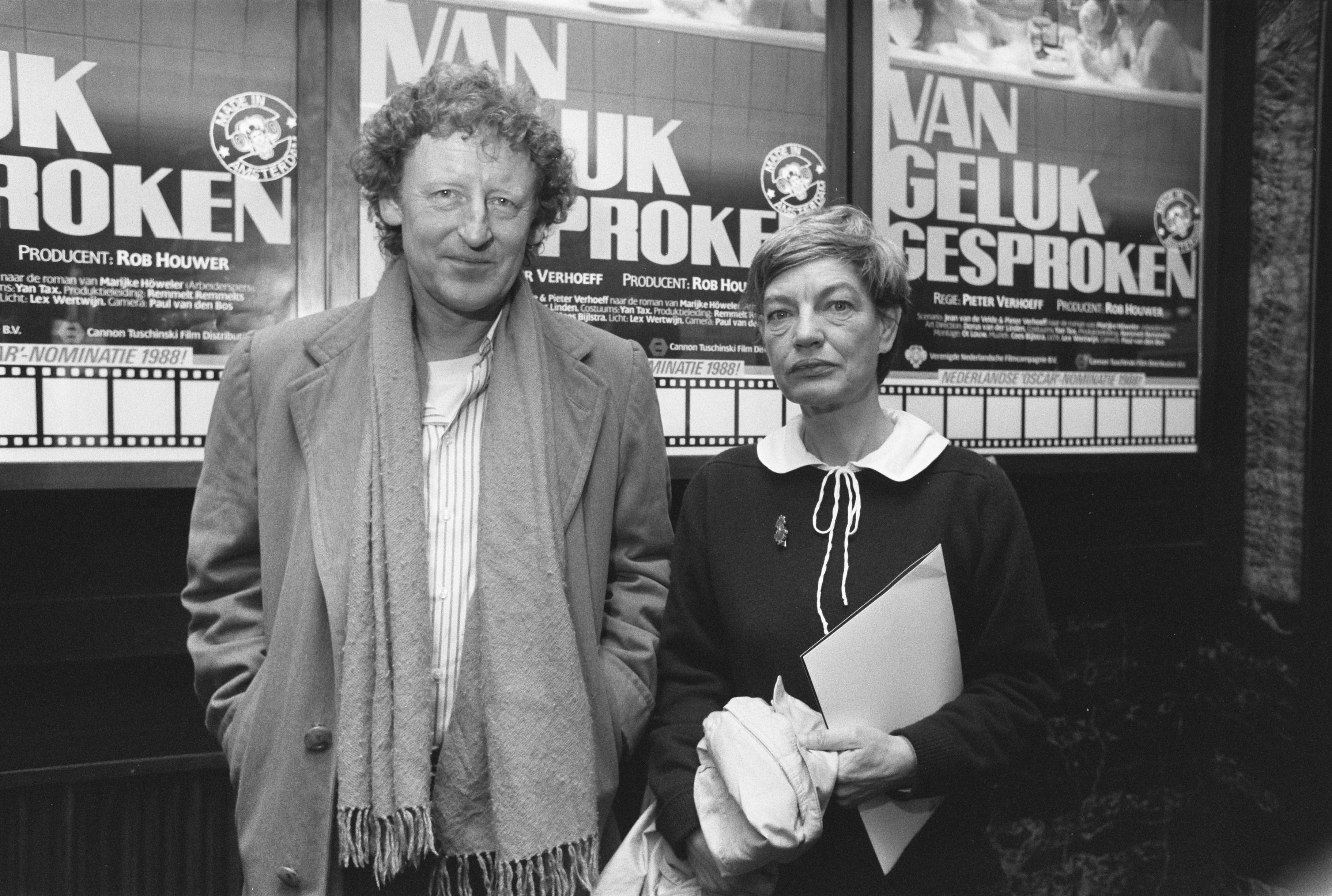 Director Pieter Verhoeff and writer Marijke Höweler after the press premiere of Count Your Blessings